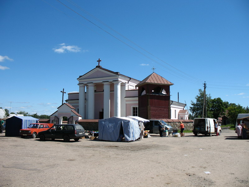 Catholic church in Daŭhinaŭ, Biełaruś